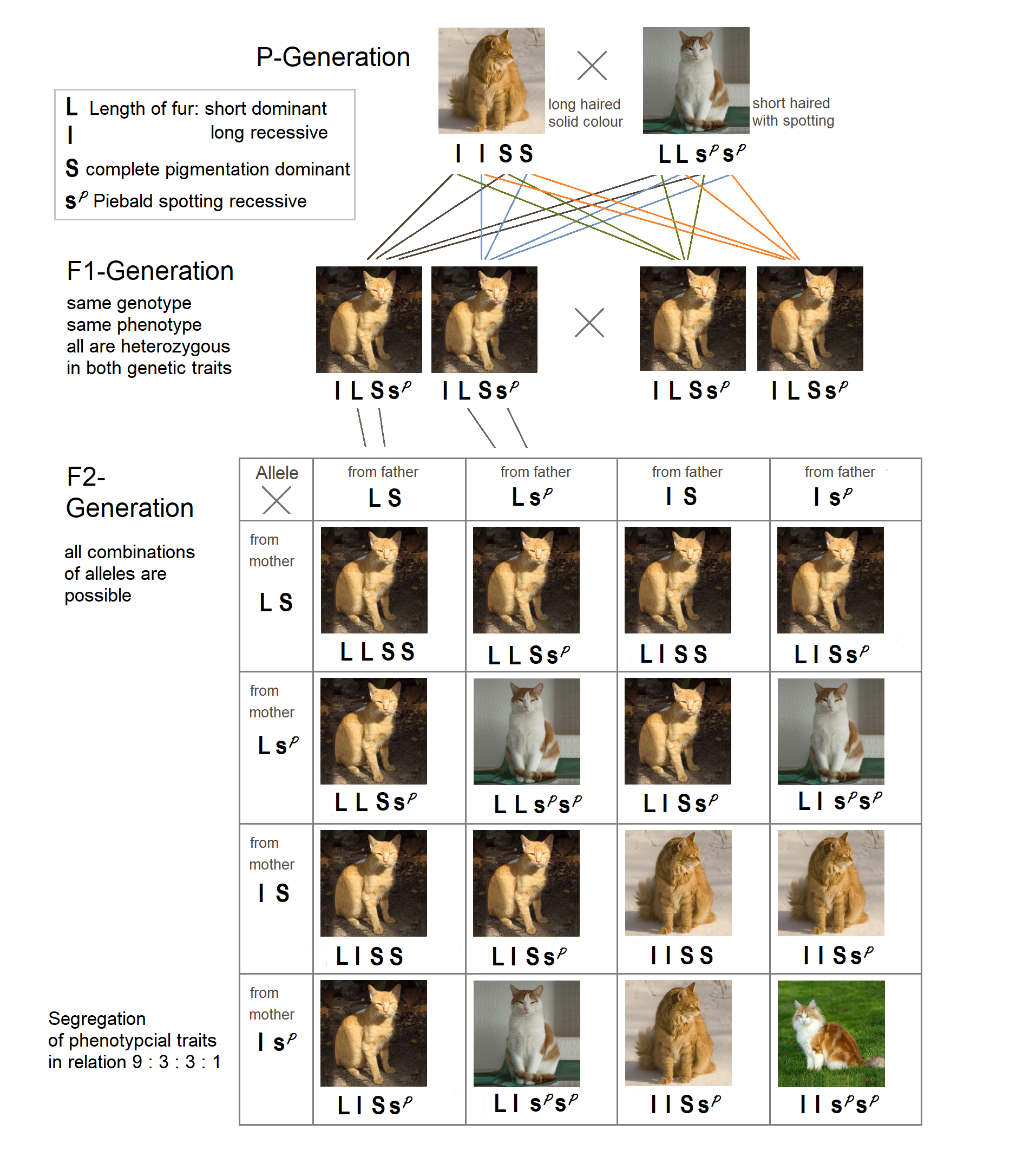 Dihybrid inheritance using the example of coat length and solid or biocolor fur in cats